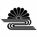 Kikusui